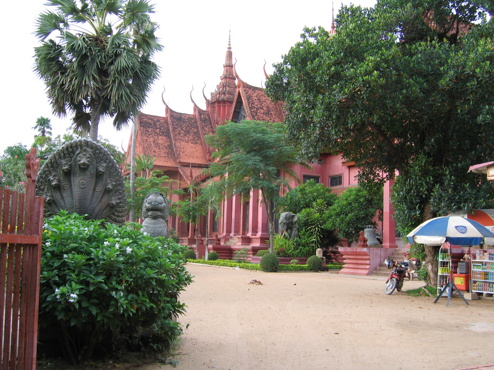 Entry of the museum